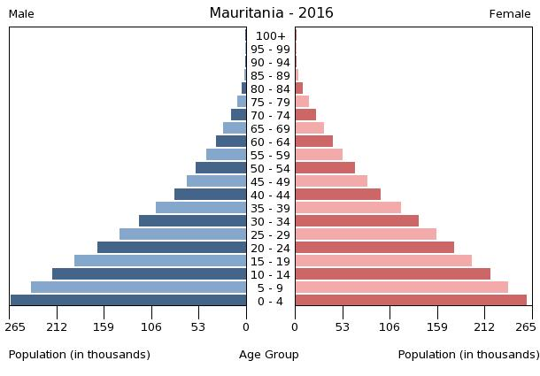 The population pyramid of Mauritania illustrates the age and sex structure of population and may provide insights about political and social stability, as well as economic development. The population is distributed along the horizontal axis, with males shown on the left and females on the right. The male and female populations are broken down into 5-year age groups represented as horizontal bars along the vertical axis, with the youngest age groups at the bottom and the oldest at the top. The shape of the population pyramid gradually evolves over time based on fertility, mortality, and international migration trends.